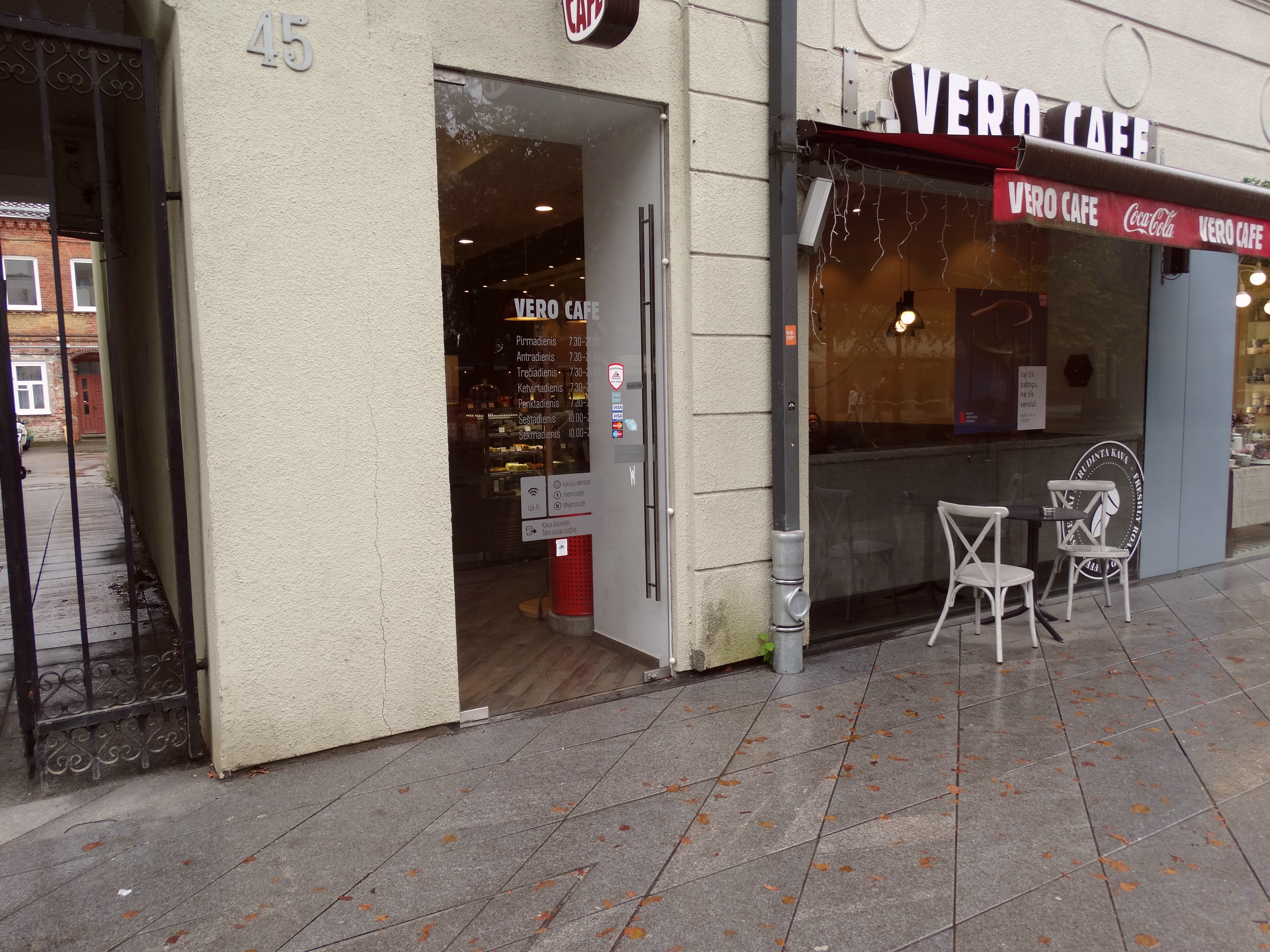 Laisvės alėja 45, Kaunas, Lithuania